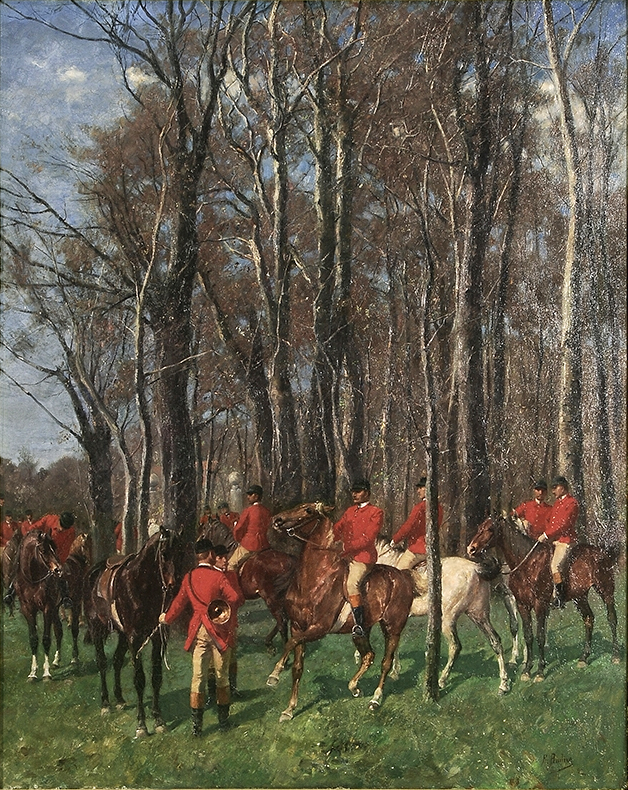 The Hunt